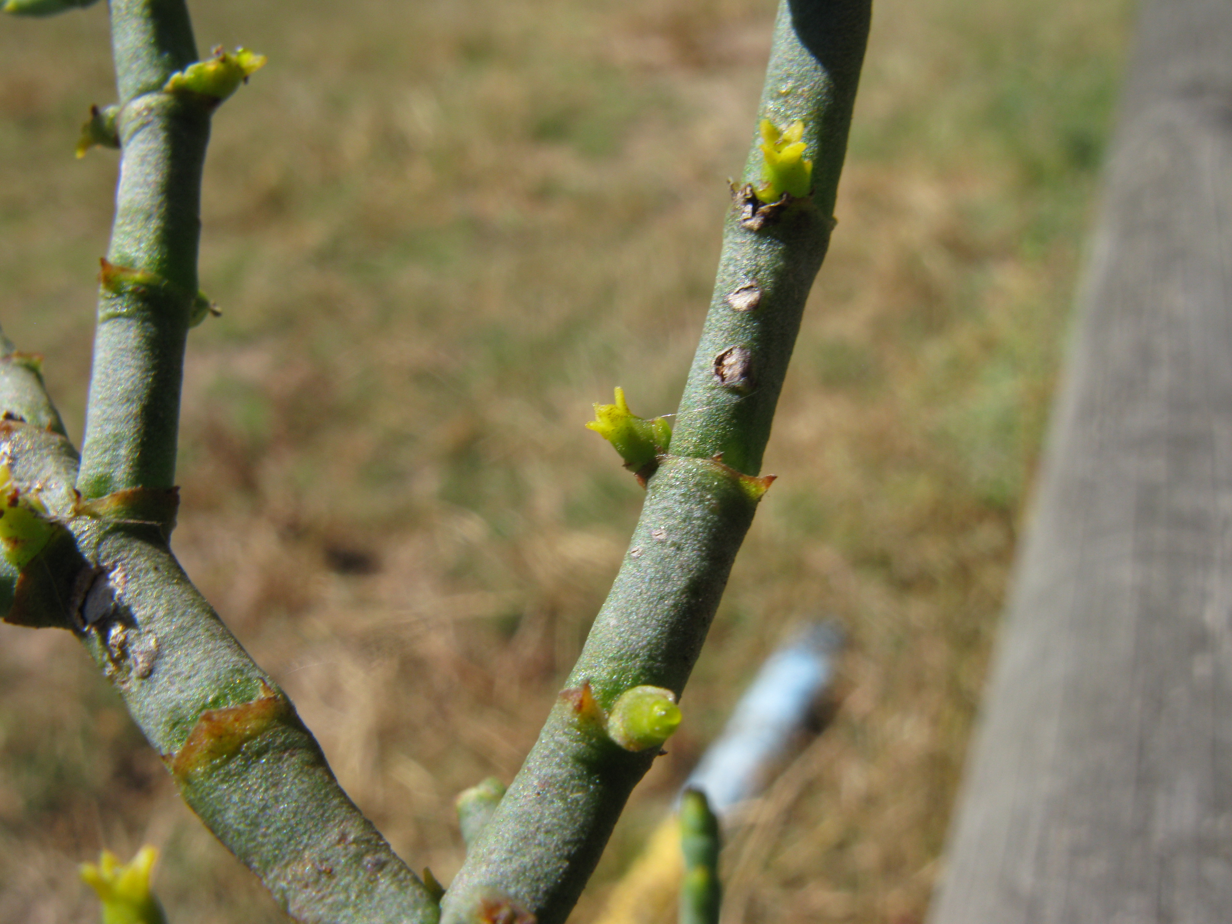 Viscum capense is a South African mistletoe with vestigial leaves and with branches that sprout largely at right angles, creating a dense bush that is ecologically important in its region. Its berries are important forage for a number of species of birds.